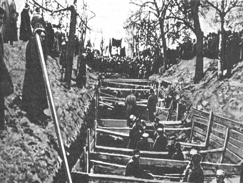 November 10, 1917. Mass graves of October Revolution victims on the Red Square